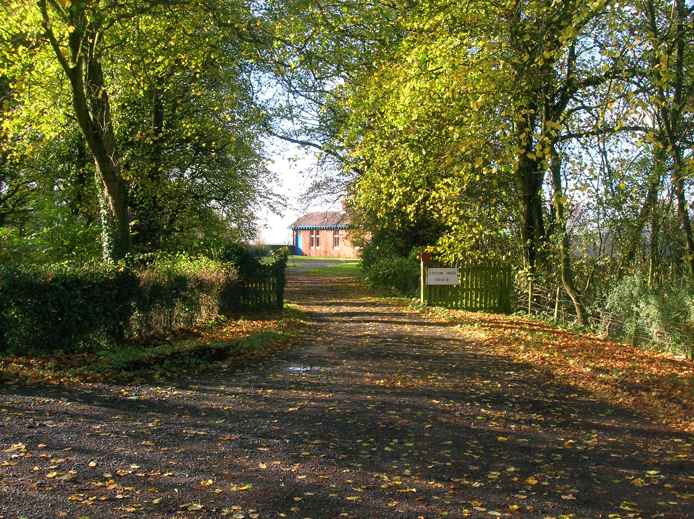 The driveway and a view of old Montgreenan railway sttaion, North Ayrshire, Scotland.